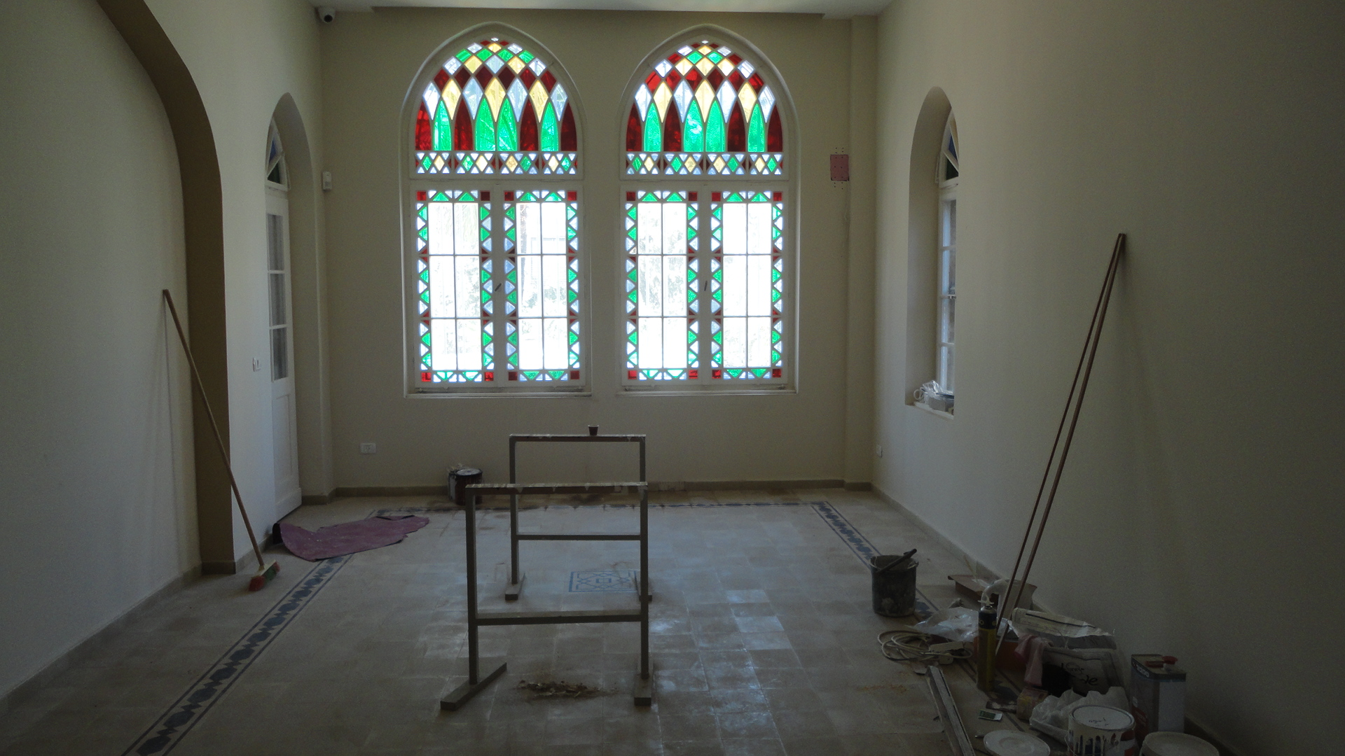 Hermann Struck House, Haifa